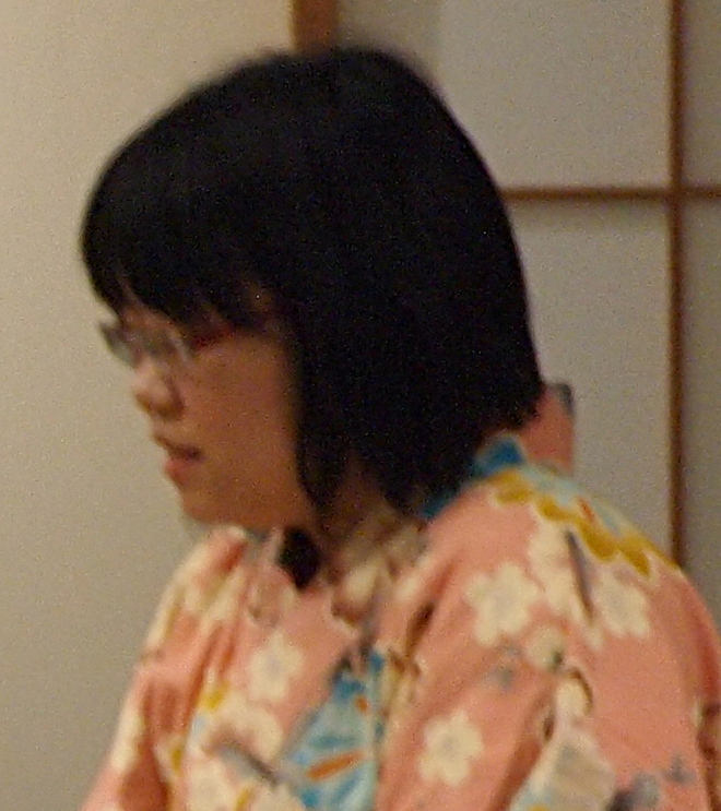 Women's professional shogi player 相川春香 Haruka Aikawa (sitting on right in orange kimono) in 2013 playing against an amateur player.